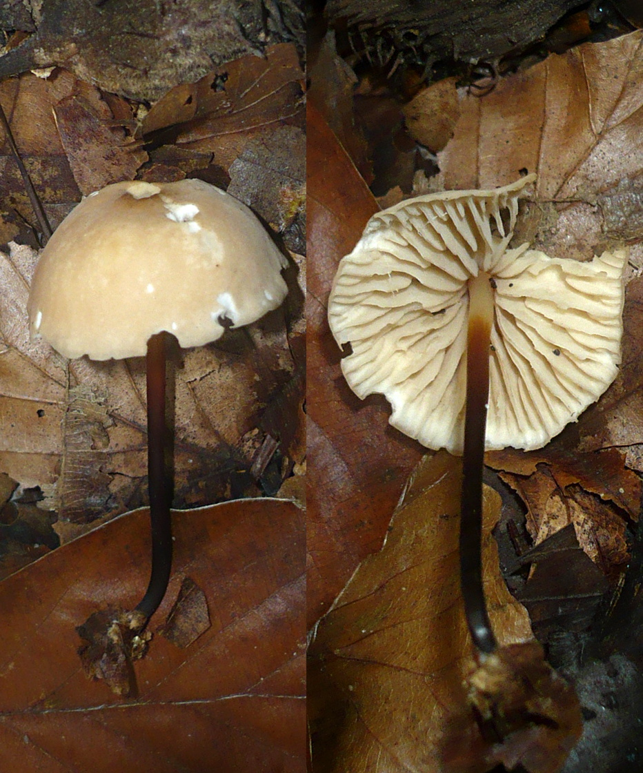 Marasmius torquescens Quel. Image location: Kolbeterberg, Vienna, Austria Recognized by sight: beech forest For more information about this, see the observation page at Mushroom Observer.